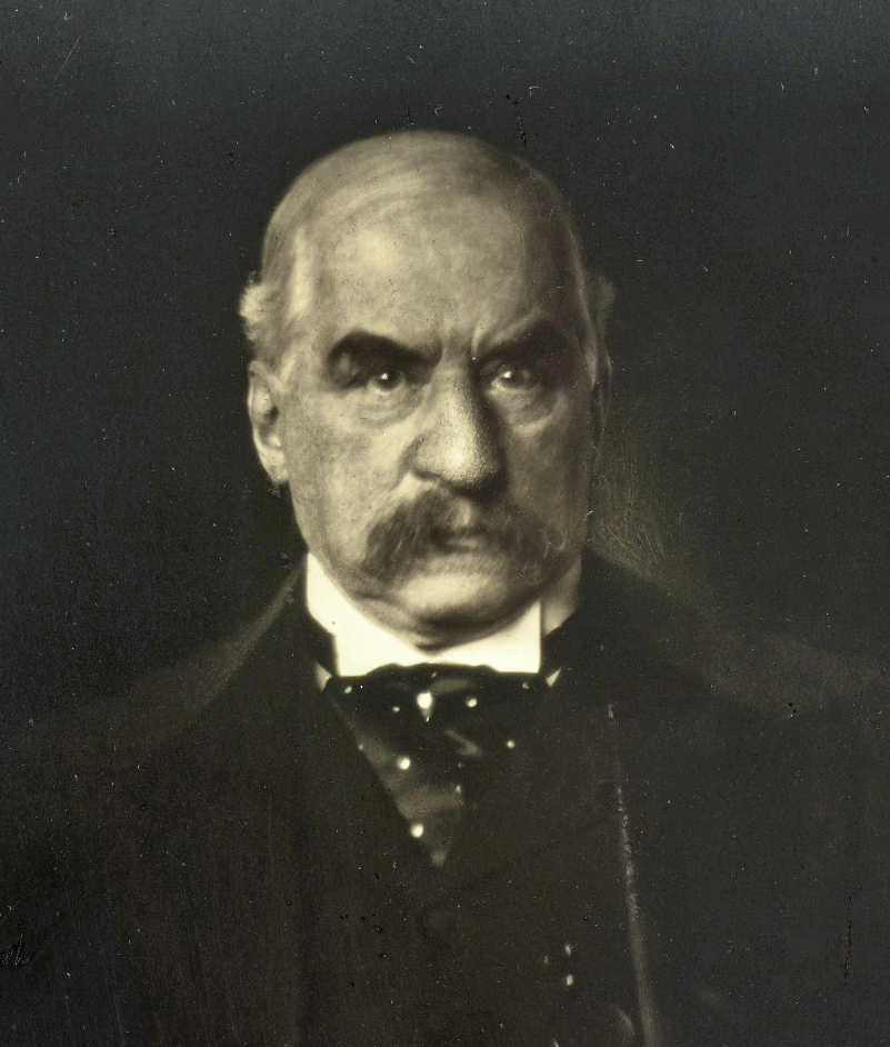 Derived from File:JP Morgan.jpg